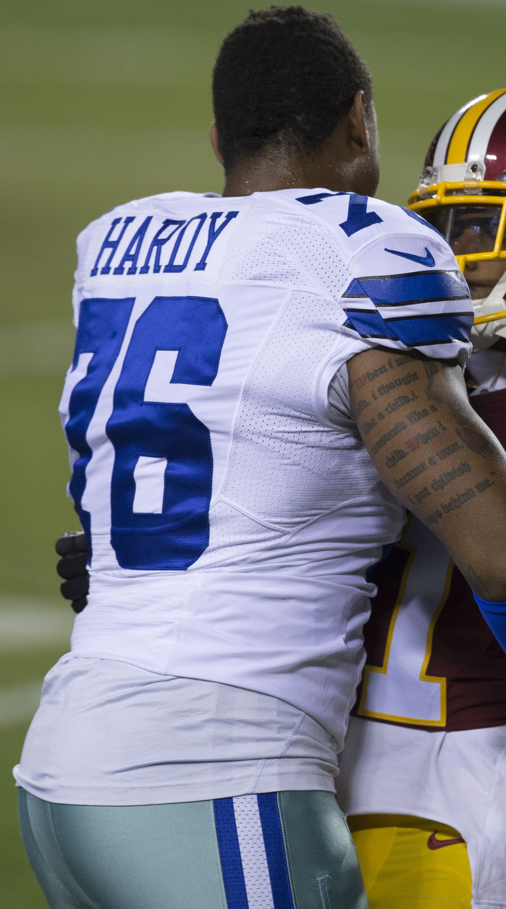 Cowboys at Redskins 12/7/15